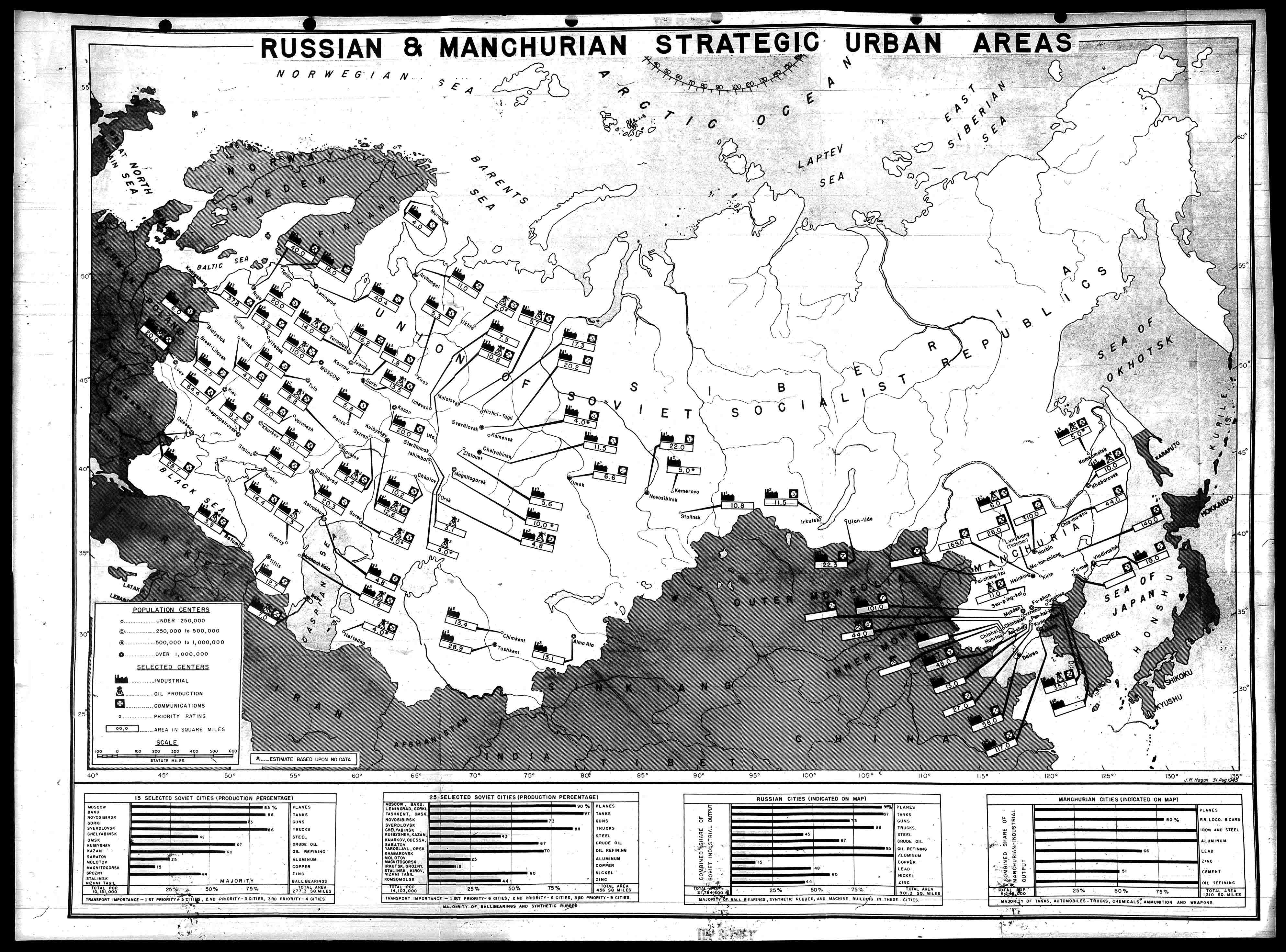 Citation: Lauris Norstad to Leslie Groves, “Atomic Bomb Production,” (15 September 1945), Correspondence (“Top Secret”) of the Manhattan Engineer District, 1942-1946, microfilm publication M1109 (Washington, D.C.: National Archives and Records Administration, 1980), Roll 1, Target 4, Folder 3, “Stockpile, Storage, and Military Characteristics.